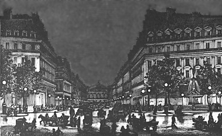 At the Paris Exposition of 1878, electric arc lighting had been installed along the Avenue de l'Opera and the Place de l'Opera, using electric Yablochkov arc lamps, powered by Zénobe Gramme alternating current dynamos[1][2][3].